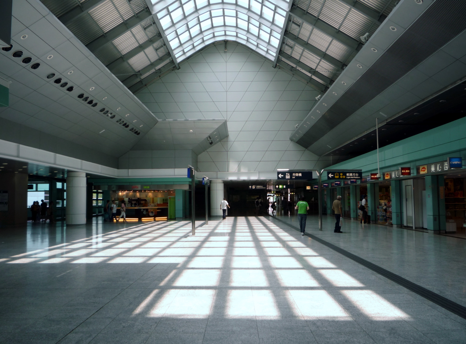 MTR Siu Hong Station concourse